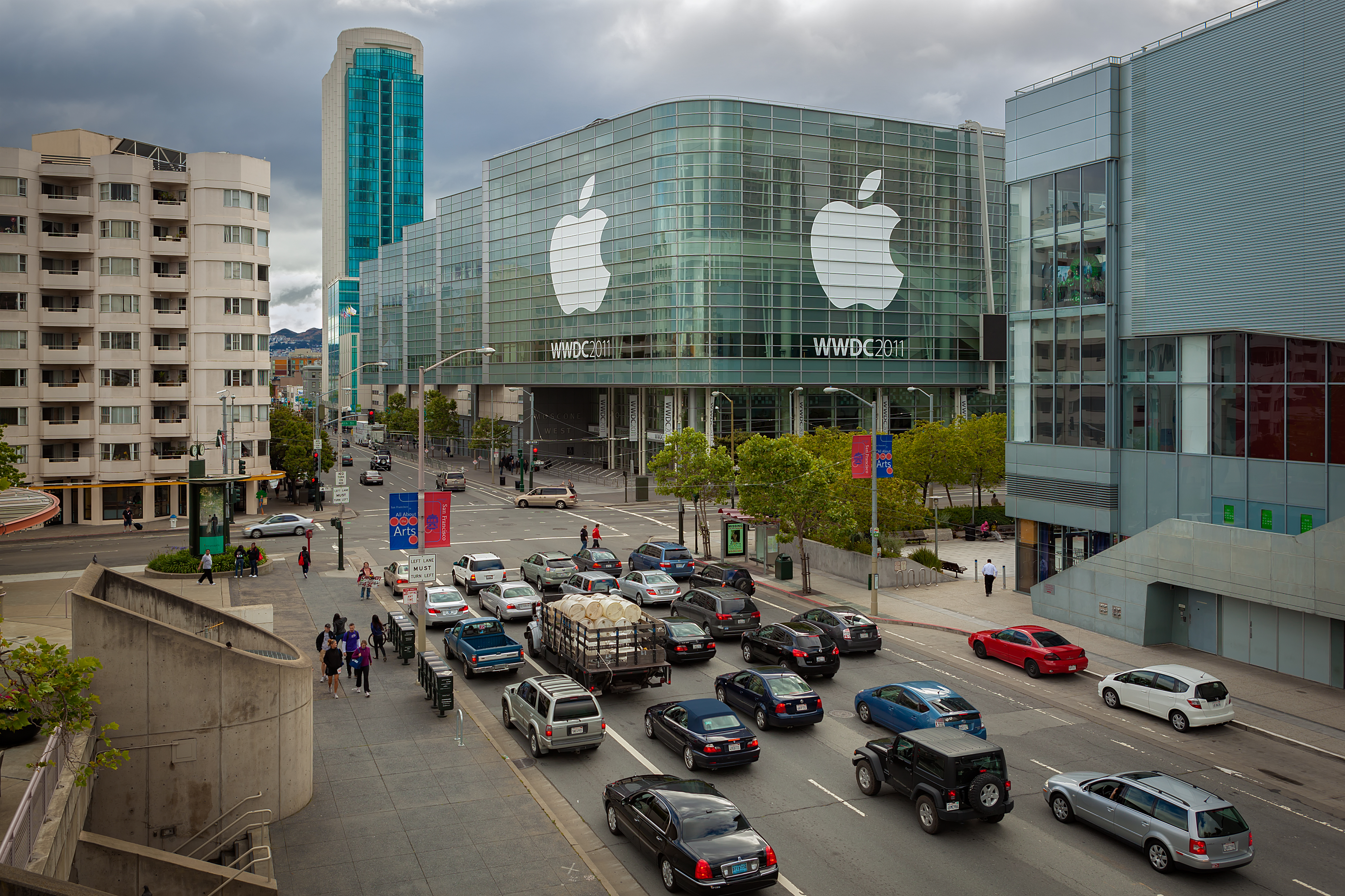 Moscone Center with Apple logo on it. WWDC 2011